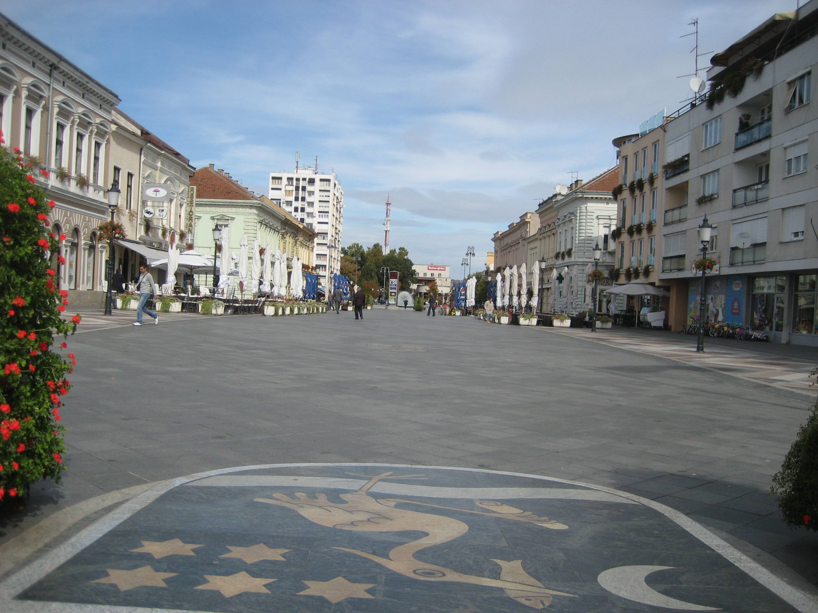 slavonski brod